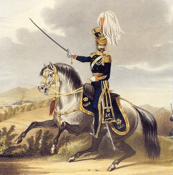 Print of an officer of Canada's Queen's Light Dragoons, dating from sometime between 1839 - 1849